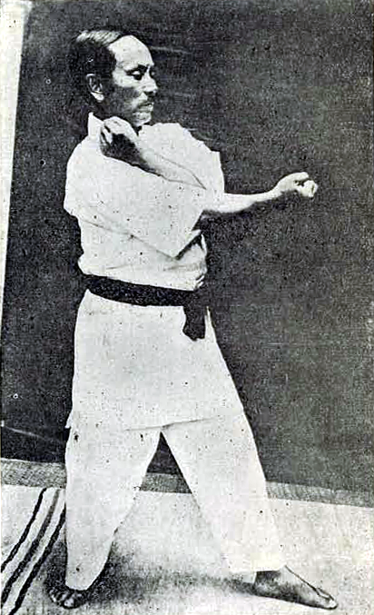 Gichin Funakoshi performing the second movement of kata Heian Nidan